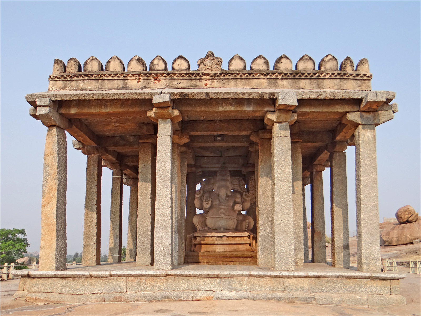 Sasivekalu temple is a Hindu temple, located in Hampi 350 km north of Bangalore, in the state of Karnataka in southern India. It is part of the Group of Hindu Temple Monuments at Hampi. Sasivekalu temple is dedicated to Ganesh, the elephant head deity, son of Parvati and Shiva. Also spelled Ganesa, Ganapati and Vinayaka, he is the deity who removes obstacles, a patron of arts and sciences, intellect and wisdom, blessings and good beginnings. Among Hindus, he is often remembered and honored at the start of rituals and ceremonies. His name and symbols are found from Ateshgah Fire Temple near Baku (Azerbaijan), throughout India to Hindu temples in Cambodia, Viet Nam and Bali, Indonesia. Le temple de Sasivekalu Ganesha. Ce temple dédié à Ganesha est situé au pied de la colline de Hemakuta (dans un lieu où poussaient des plantes de moutarde d'où le nom Sasivekalu) Un pavillon ouvert est construit autour de la statue monolithique. Selon les inscriptions trouvées à proximité, ce pavillon a été construit par un commerçant de Chandragiri (aujourd'hui Andhra Pradesh) en 1506, à la mémoire de l'un des rois Vijayanagar : Narasimha II (1491-1505) Site officiel =